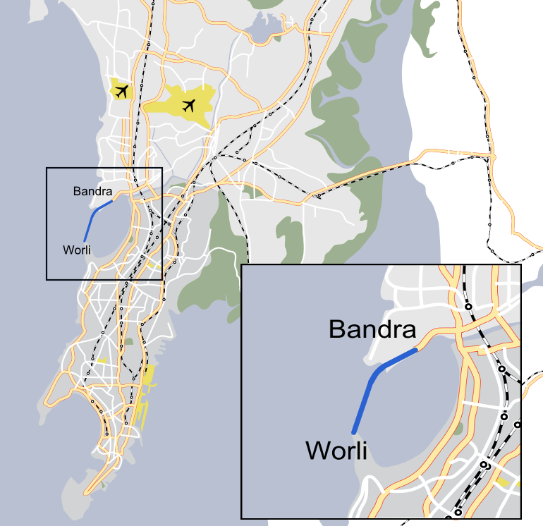 Map of Bandra-Worli Sea Link in Mumbai, India